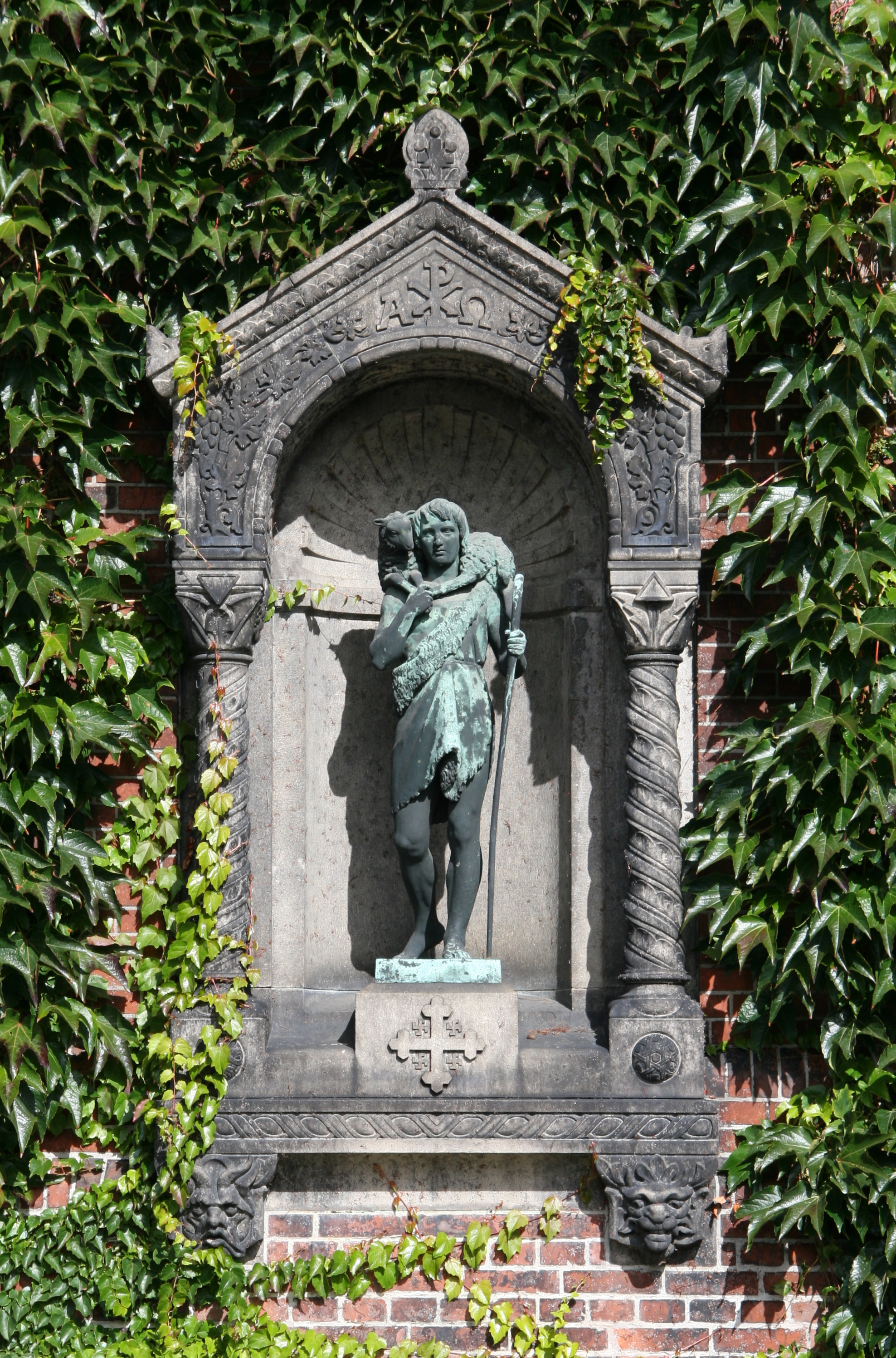 Jesuskirken, Valby, Copenhagen, Denmark Decoration at the south end.